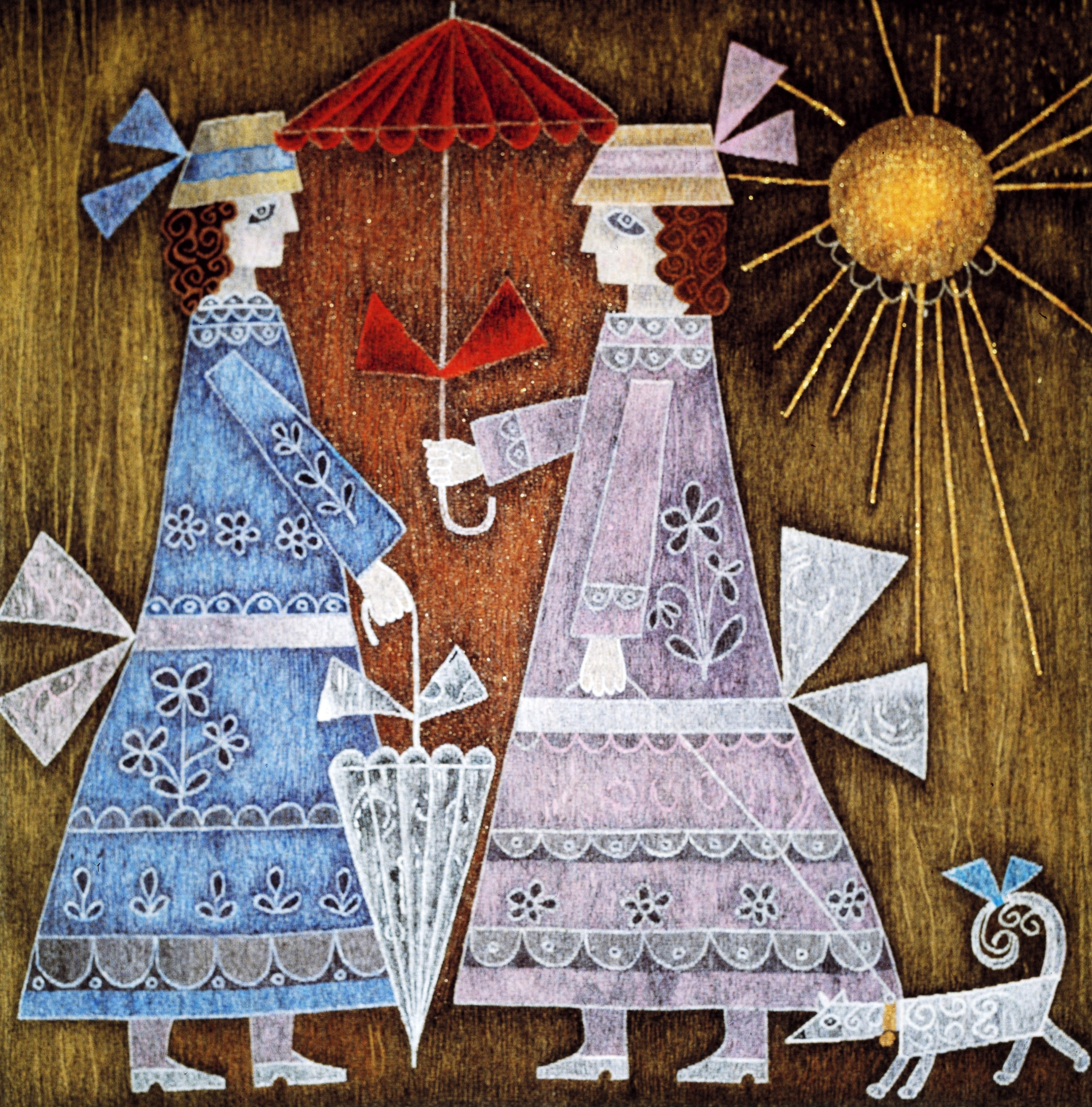 Mara Josifova, Friends, wall carpet 200-200 cm 1987